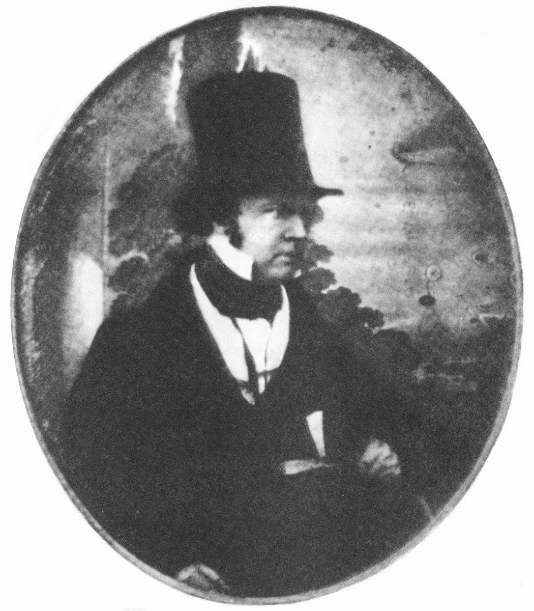 William Henry Fox Talbot